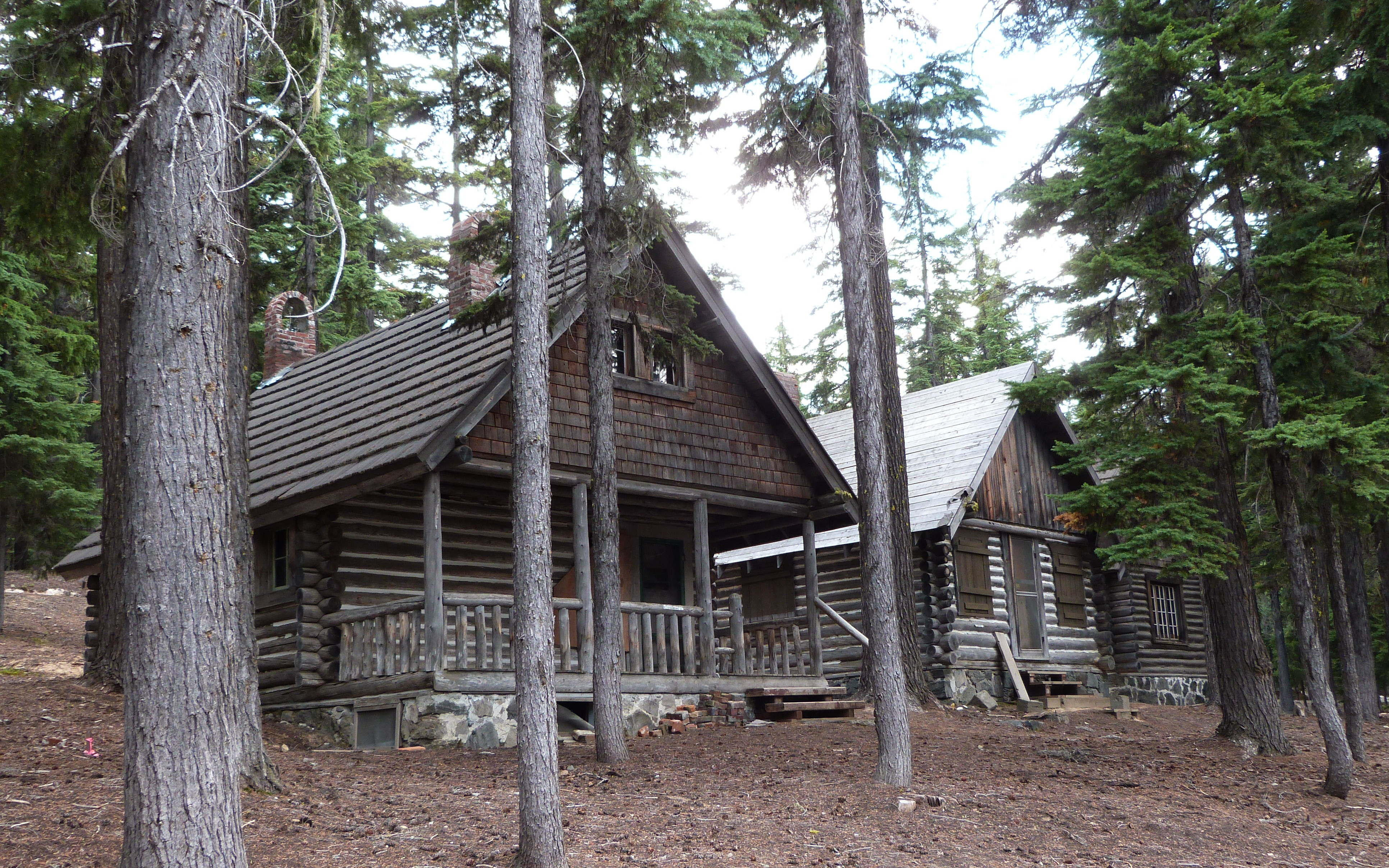 The historic I.O.O.F. Organization Camp, Paulina Lake (built 1934), located on Forest Road 21 near Paulina Lake in Newberry National Volcanic Monument, Oregon, United States, is listed on the US National Register of Historic Places. As of the photo date, the historic area (though not the buildings themselves) are in use as a public group campground, the Newberry Group Camp.